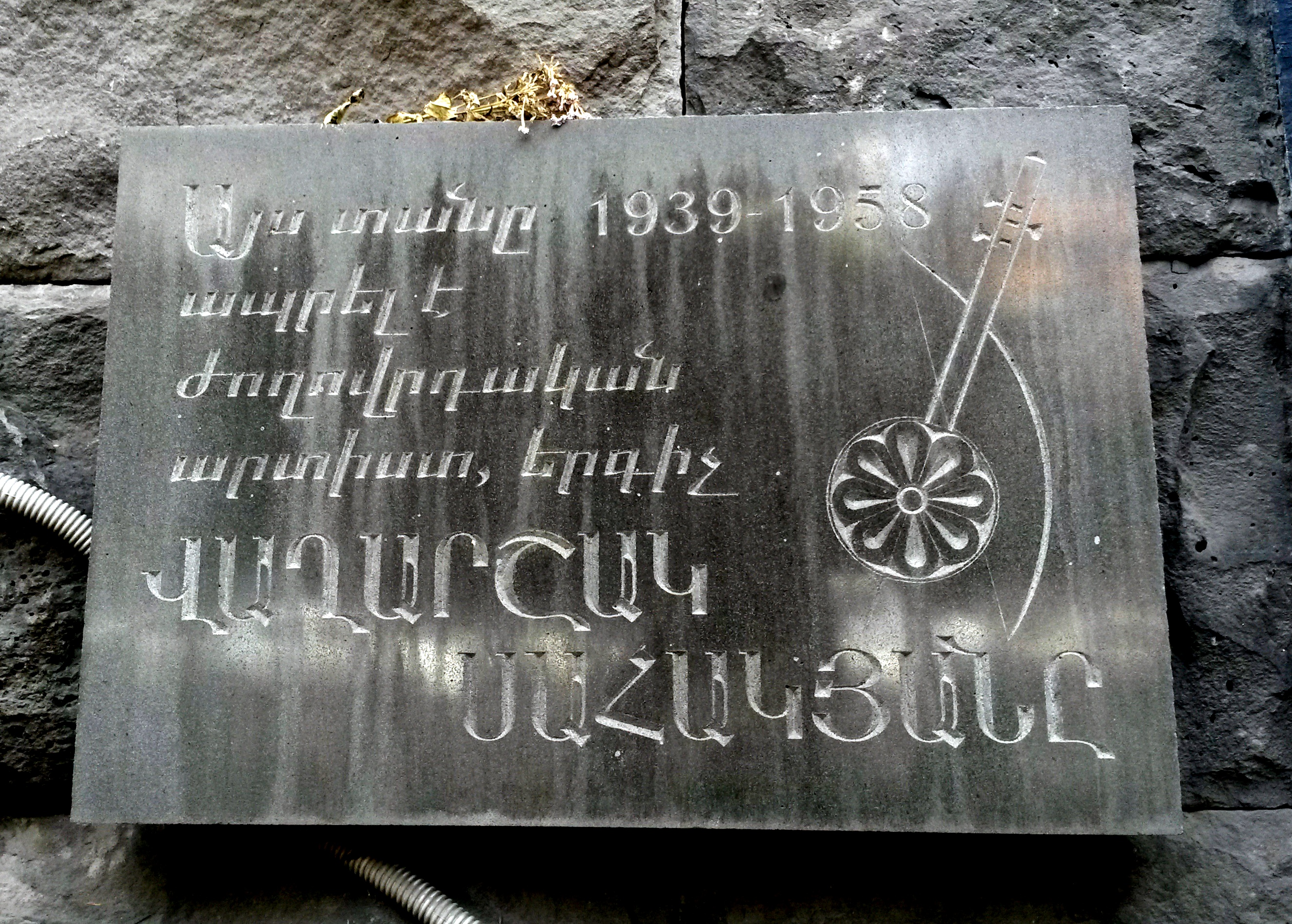 Vagharshak Sahakyan's plaque on Mashtots Avenue, Yerevan